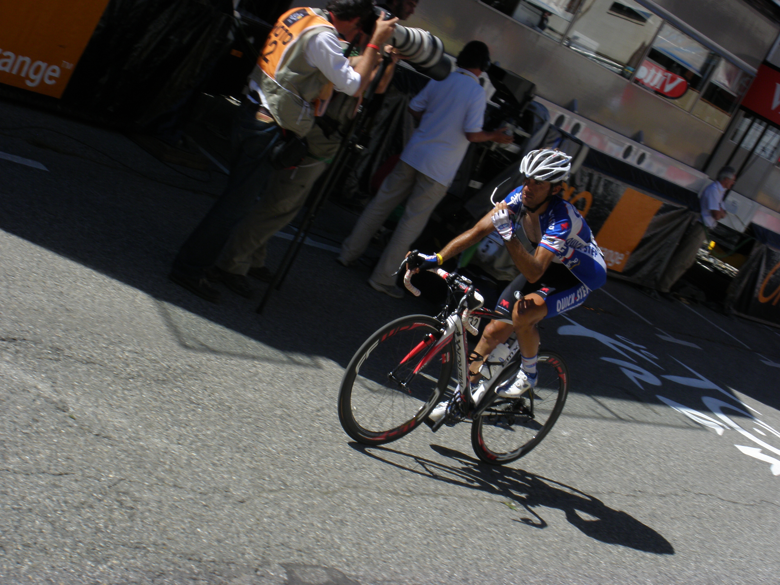 Carlos Barredo crosses the finish line of stage 14 in Ax 3 Domaines (Tour de France 2010)